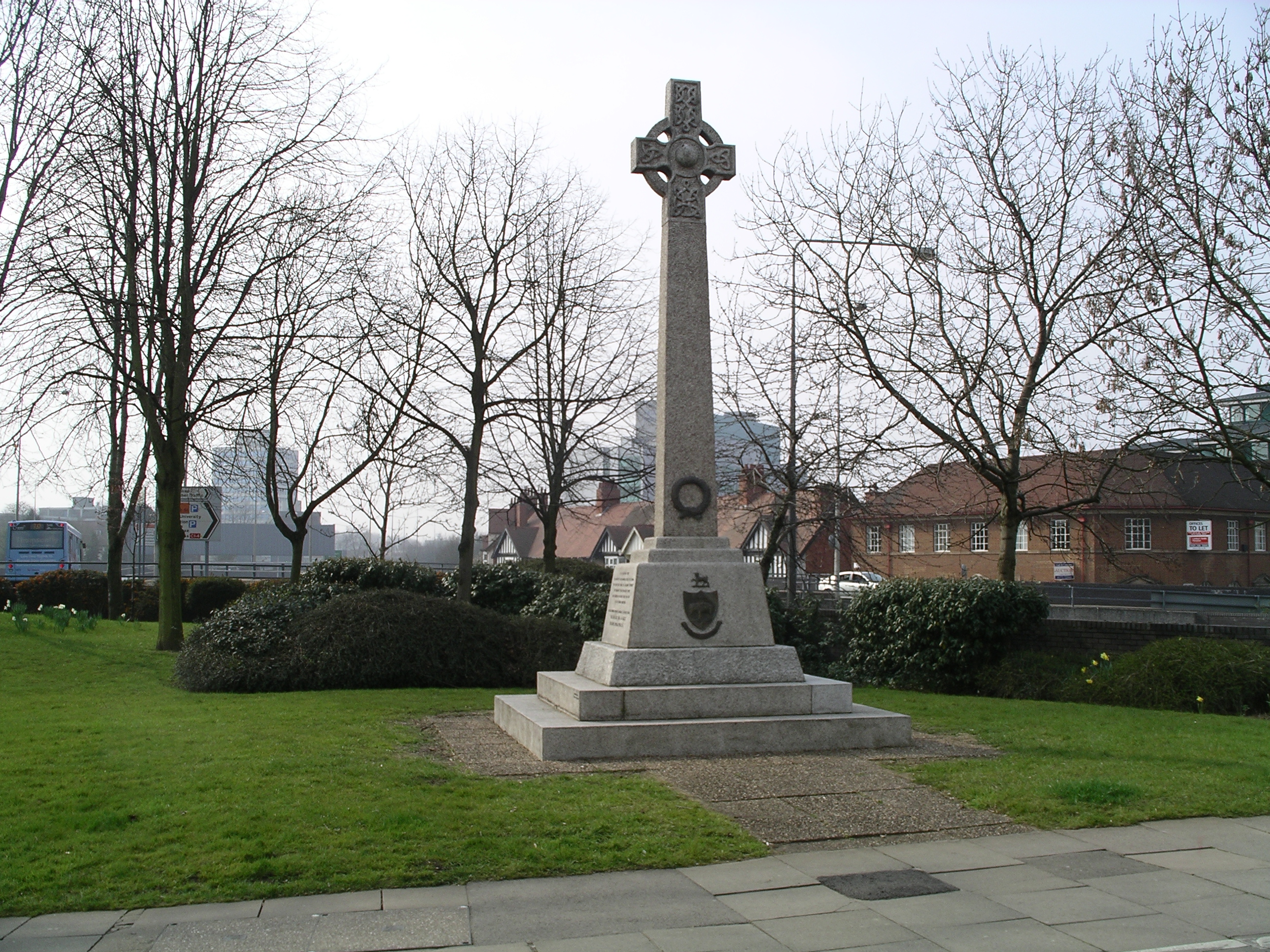 The Martyrs memorial cross in Coventry, West Midlands, England.